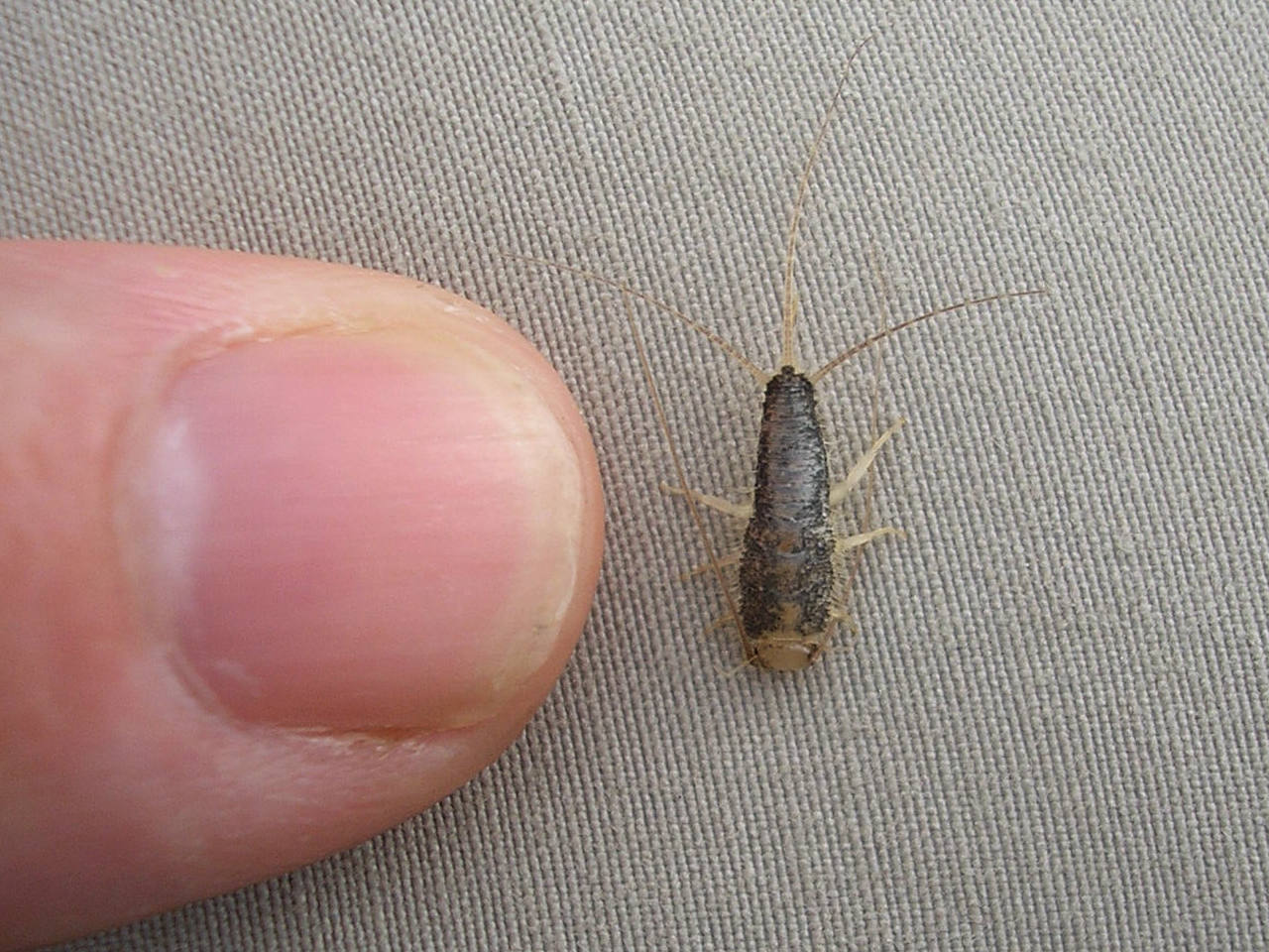 Grey silverfish Location: Almelo, NL Keywords: Zygentoma, Thysanura